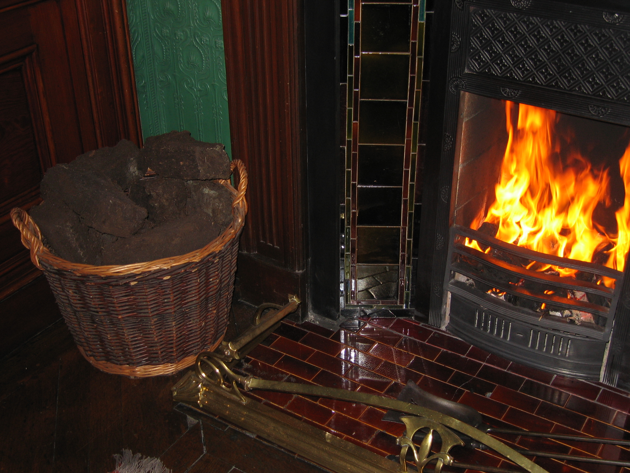 A Fireplace with Peat